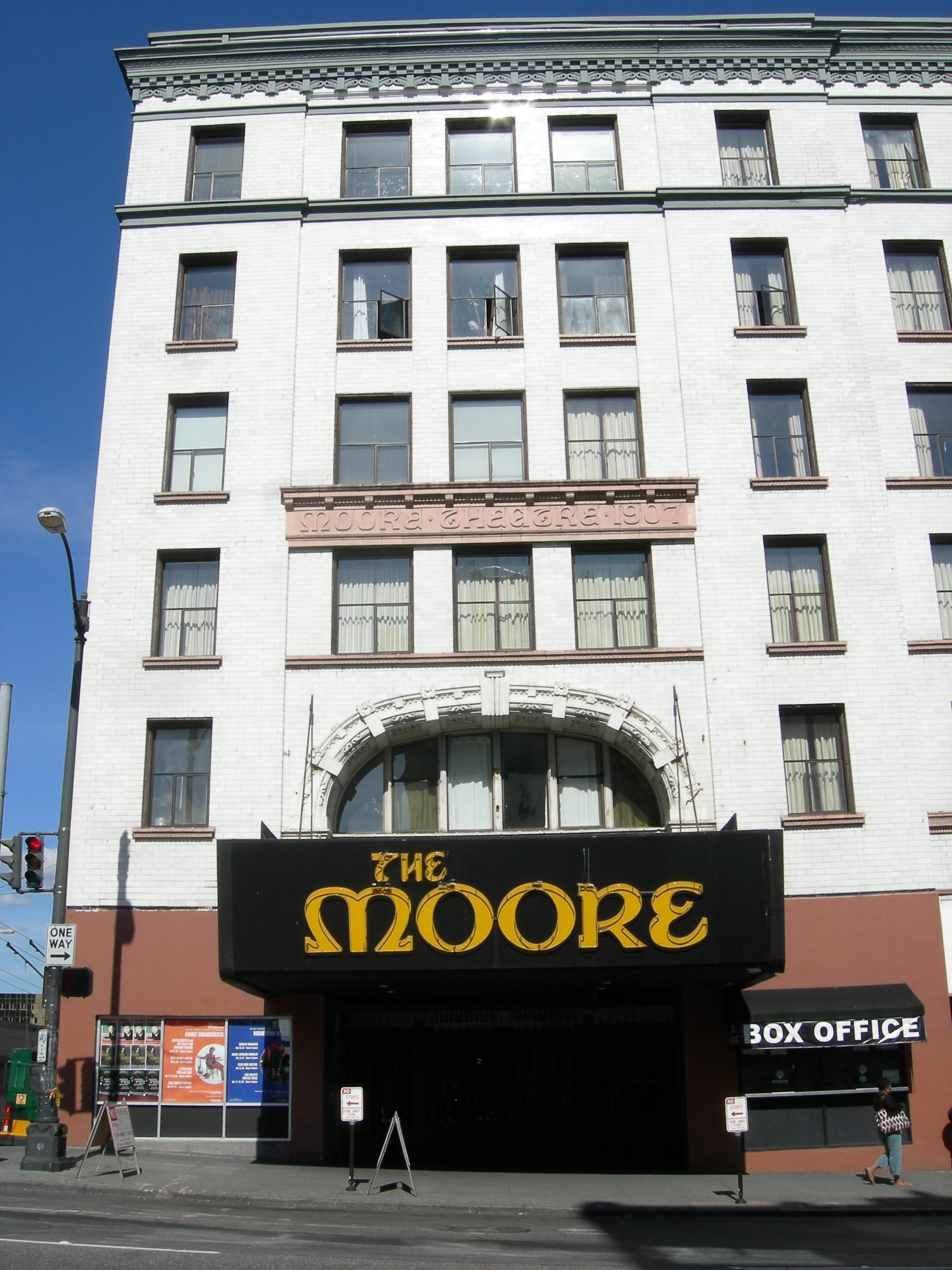 Entrance of the Moore Theater, Seattle, Washington. The Moore Theatre and Hotel (built 1907) is on the National Register of Historic Places, ID #74001958.